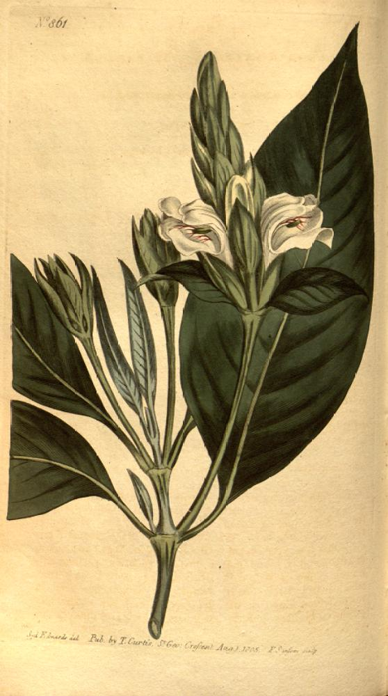 Illustration of Justicia adhatoda